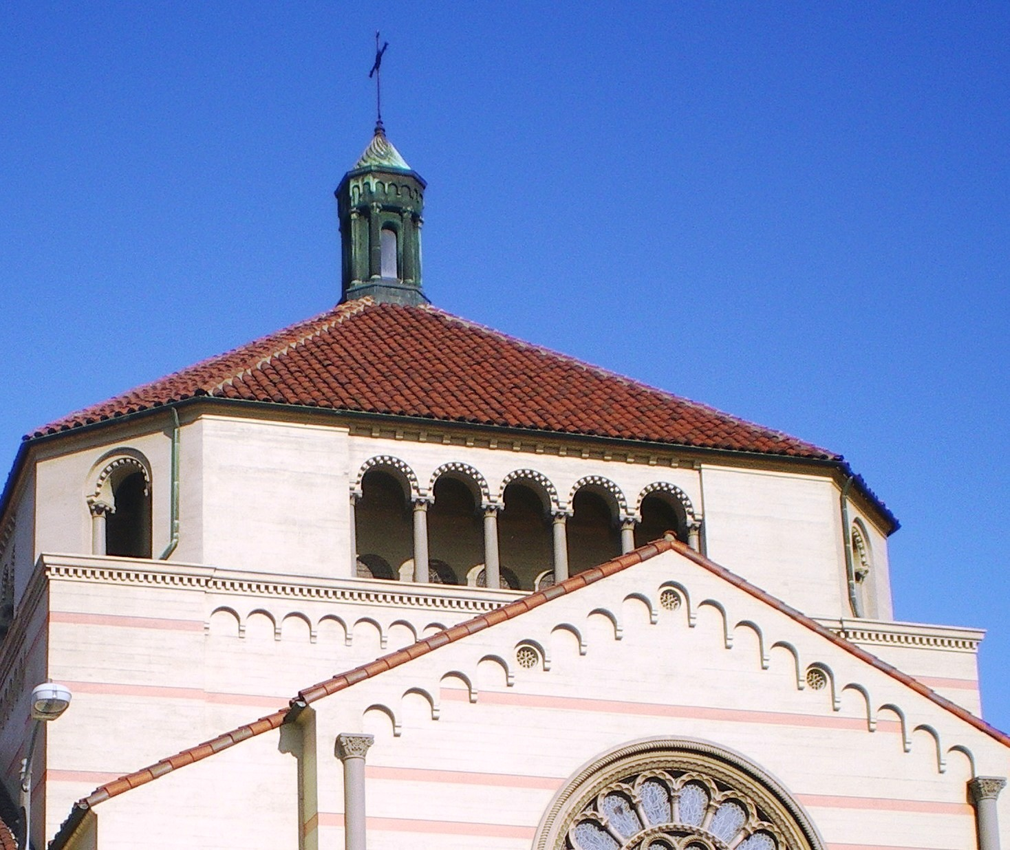 St. Cecilia Catholic Church, 4730 S. Normandie Ave., Los Angeles, California